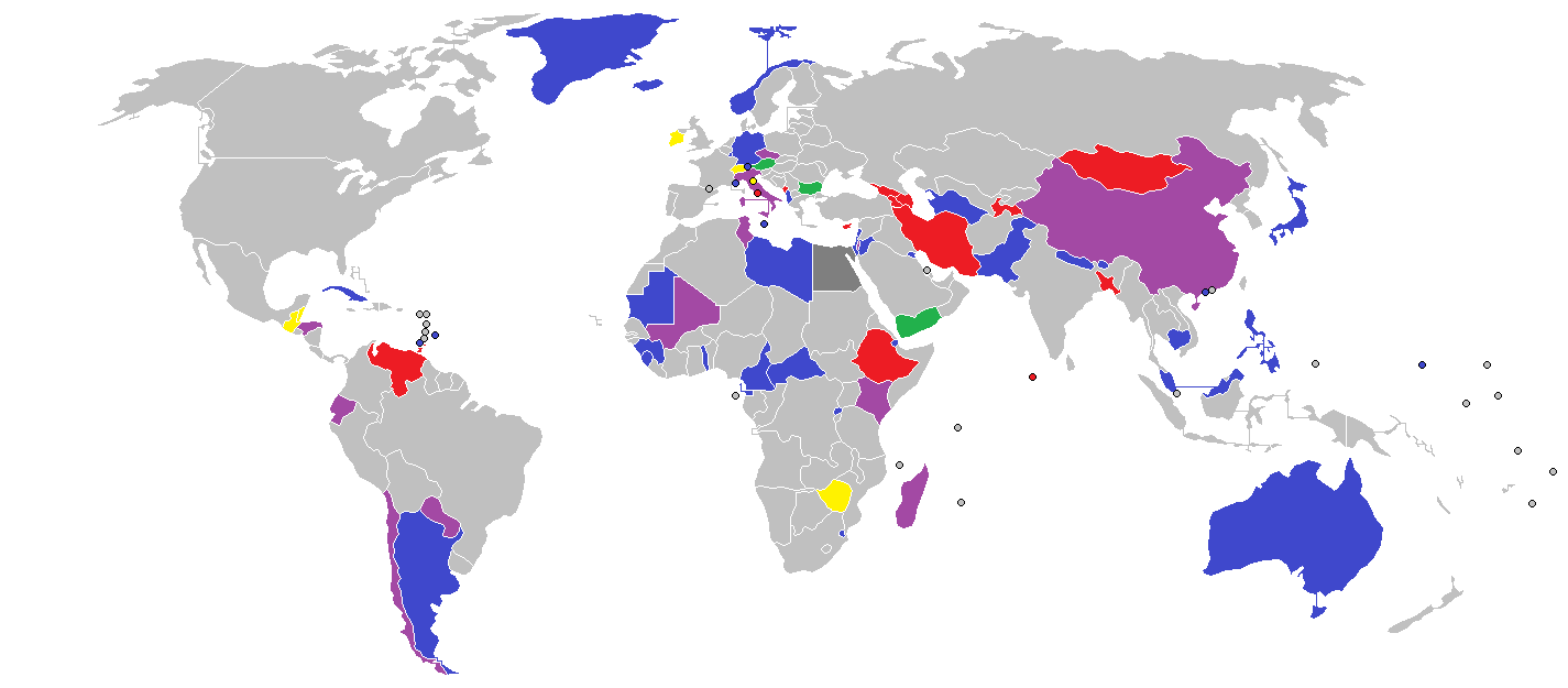 Countries that held or will hold general elections either for the head of state (most often the presidency), or for the national legislature or parliament (either the entire body or only a specific class), and nationwide referendums. Key: Red: Presidential elections Purple: Presidential and parliamentary/legislative elections Blue: Parliamentary/legislative elections Green: Parliamentary/legislative elections and referendums Yellow: Referendums Orange: Presidential elections and referendums Black: Presidential and parliamentary/legislative elections, and referendums Gray: Cancelled